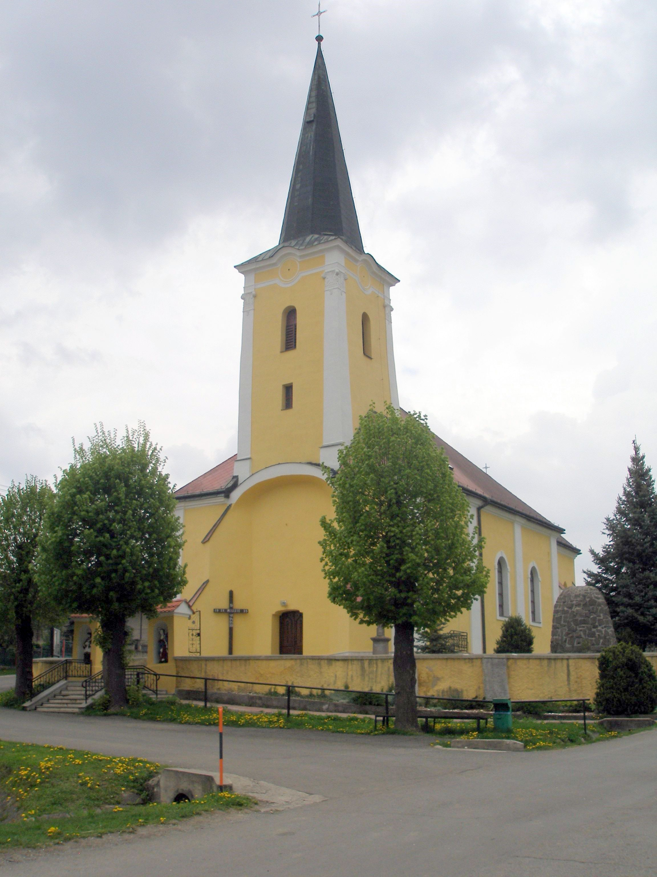 Obec Tulčík okres Prešov región Šariš This medium shows the protected monument with the number 707-390/0 (other) in the Slovak Republic.